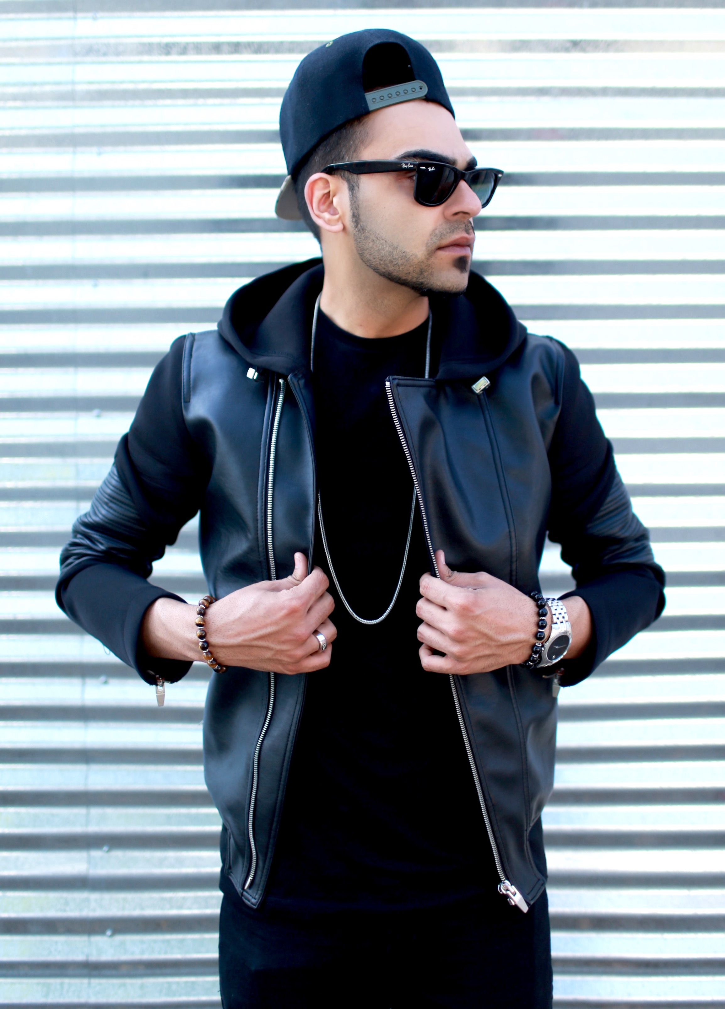 UpsideDown Press Photo